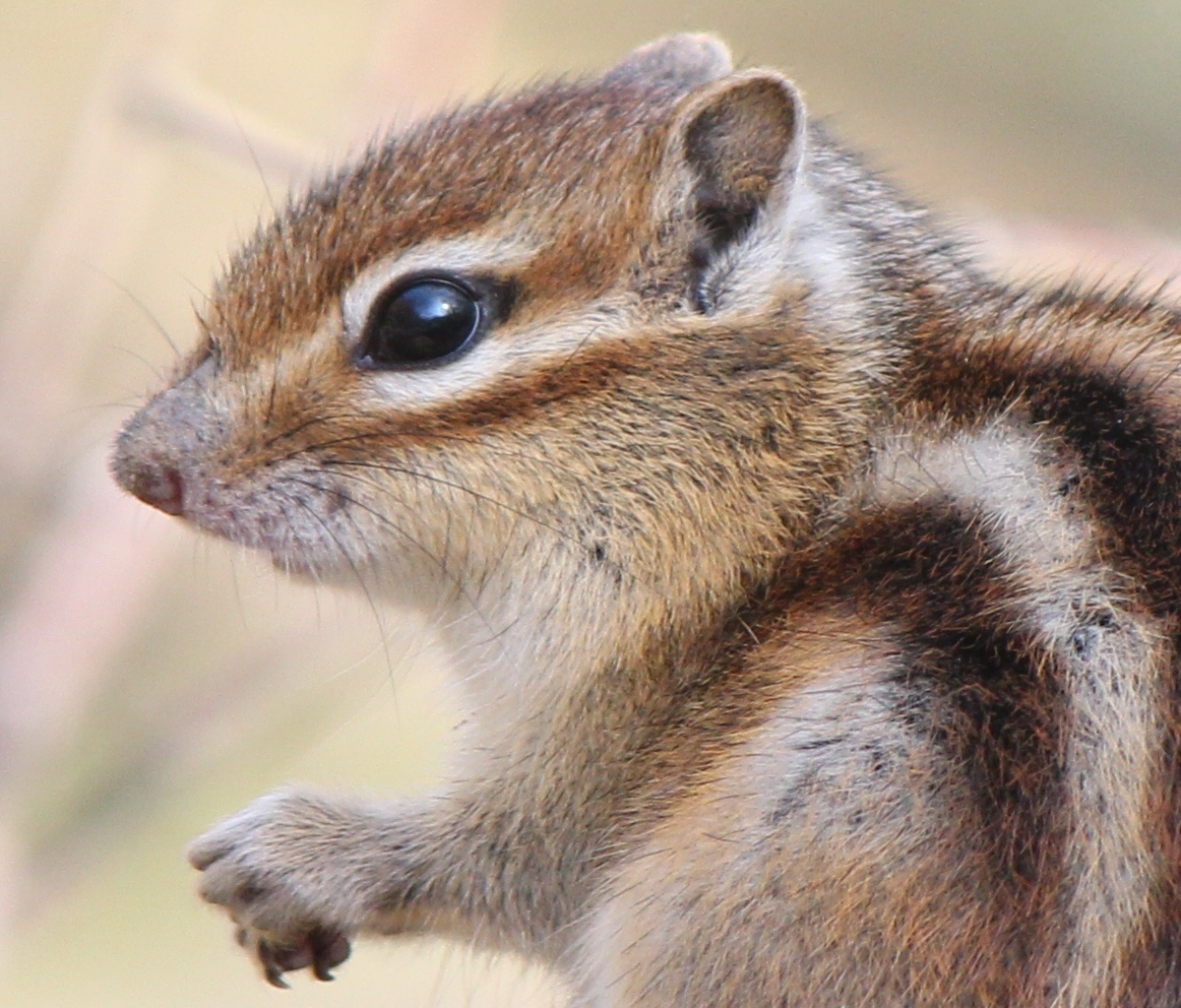 Tamias sibiricus barberi, in Mount Oike, Higashiomi, Shiga prefecture, Japan.